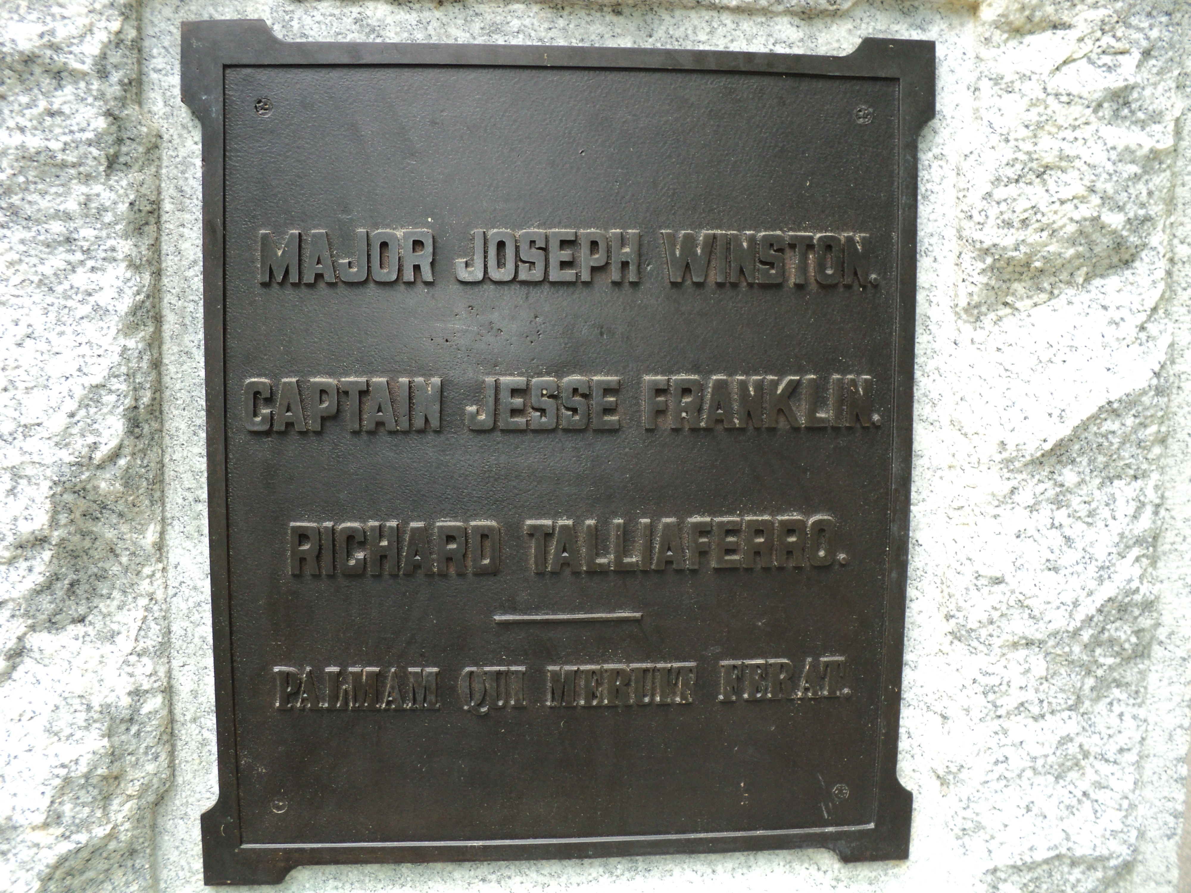 Plaque honoring Major Joseph Winston, Captain Jesse Franklin and Richard Talliaferro, on the Winston monument, Guilford Courthouse National Military Park, located in present-day Greensboro, North Carolina.